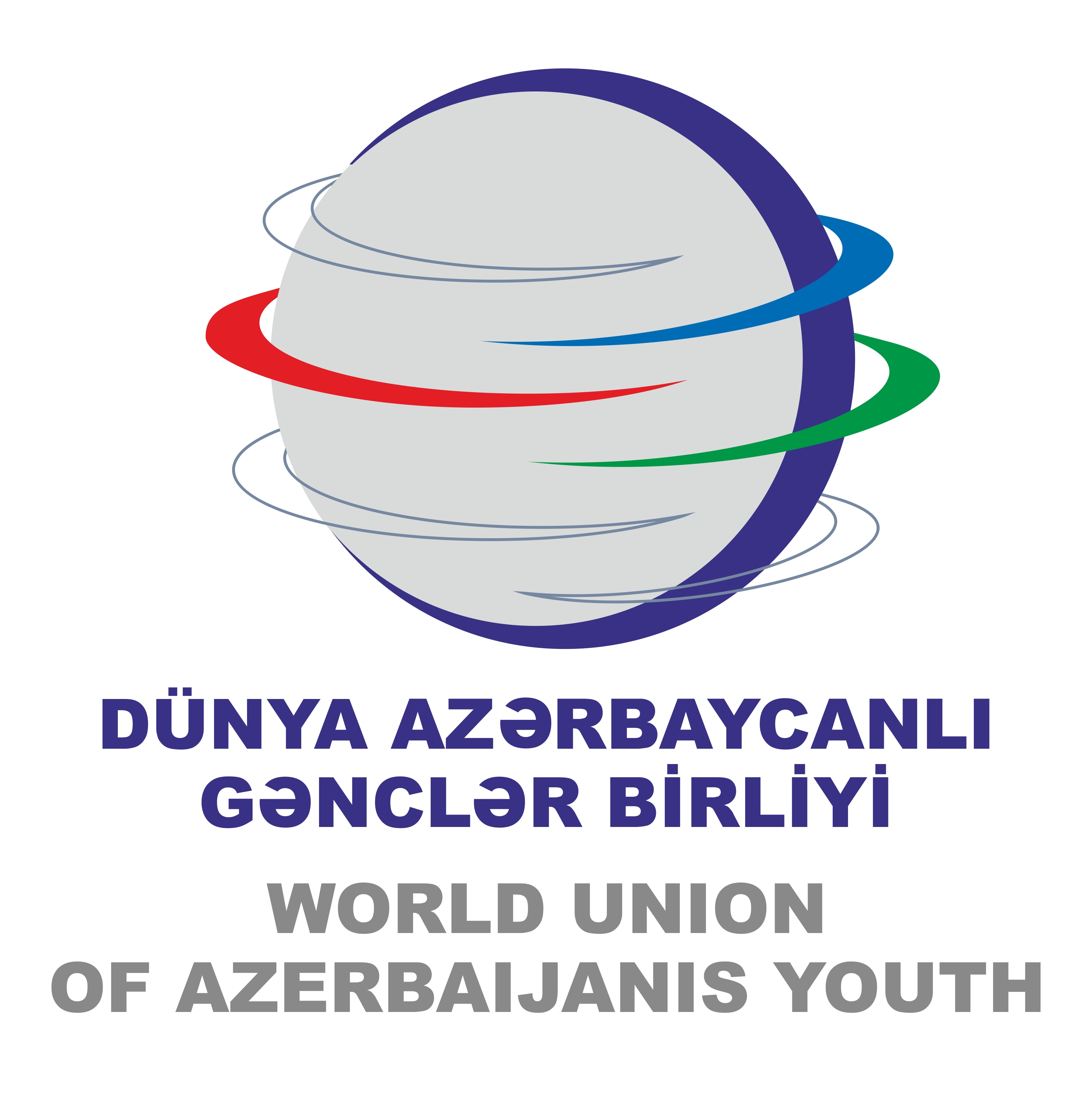 “Dünya Azərbaycanlı Gənclər Birliyi” loqosu